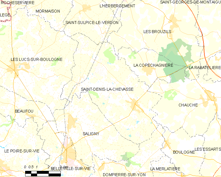 Map of French municipality Saint-Denis-la-Chevasse